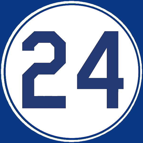 Walter Alston